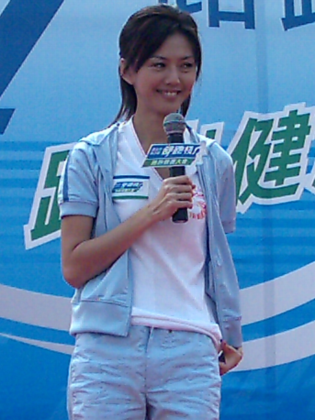 Stefanie Sun was Supau Cup Mini Marathon annual spokeswoman at 2005.